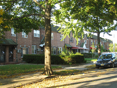 Attached post-war houses in Wyckoff Heights, New York